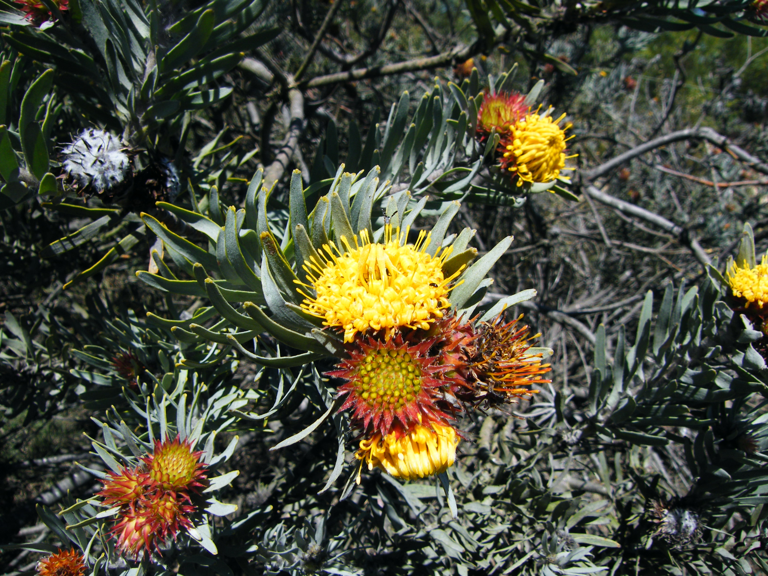 Malmsbury pincushion